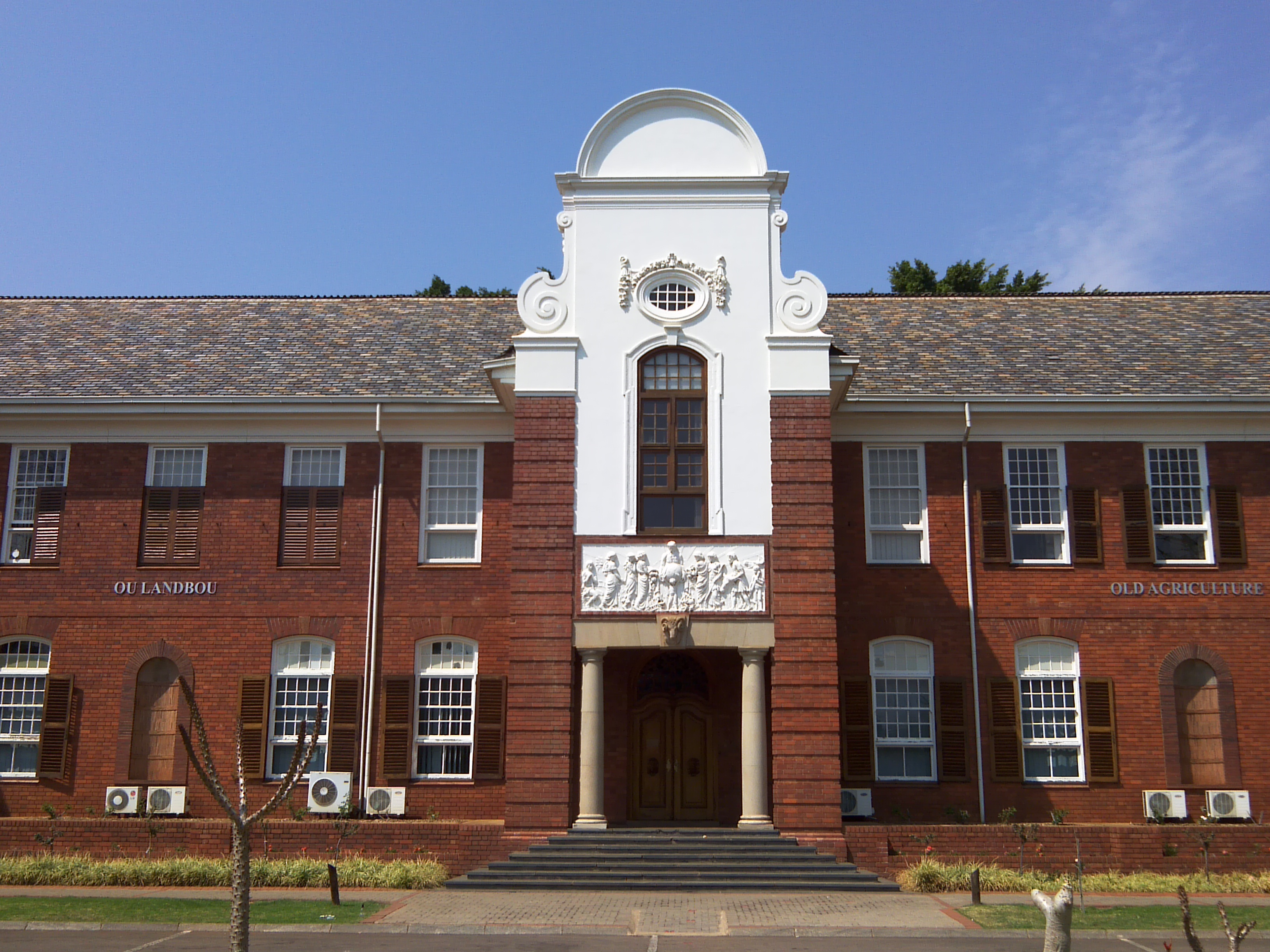 Old Agriculture building at the University of Pretoria